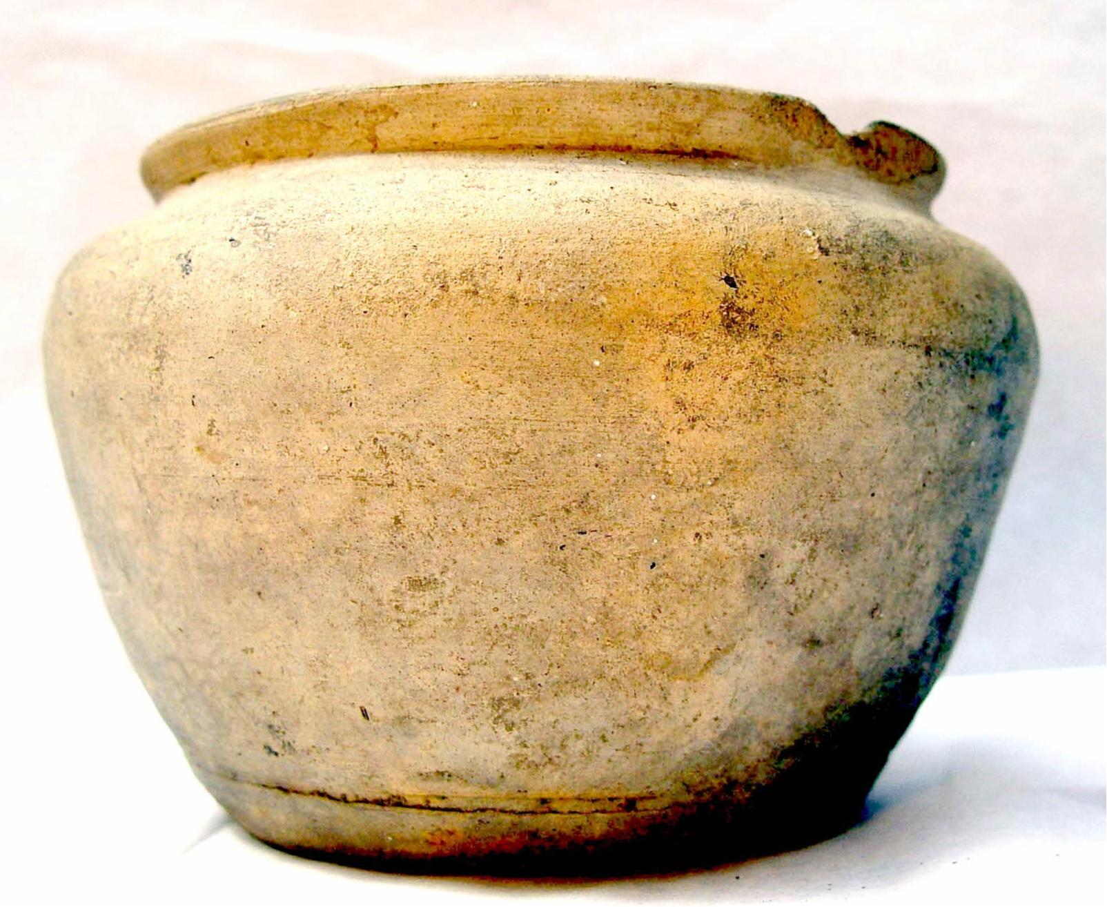 15th century Cheam whiteware cooking pot. Found in London.